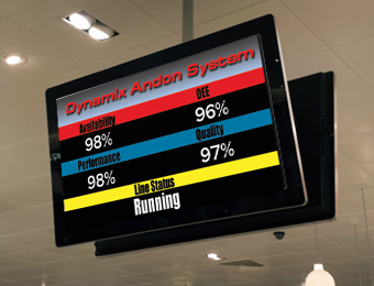 KPI - Real Time OEE